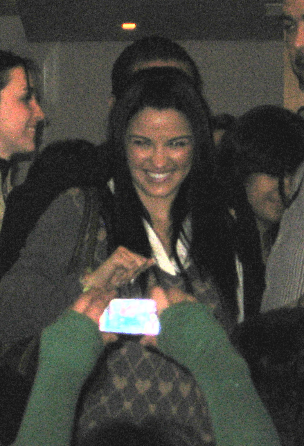 Maite Perroni in the dance club of Polanco on January 28, 2008.